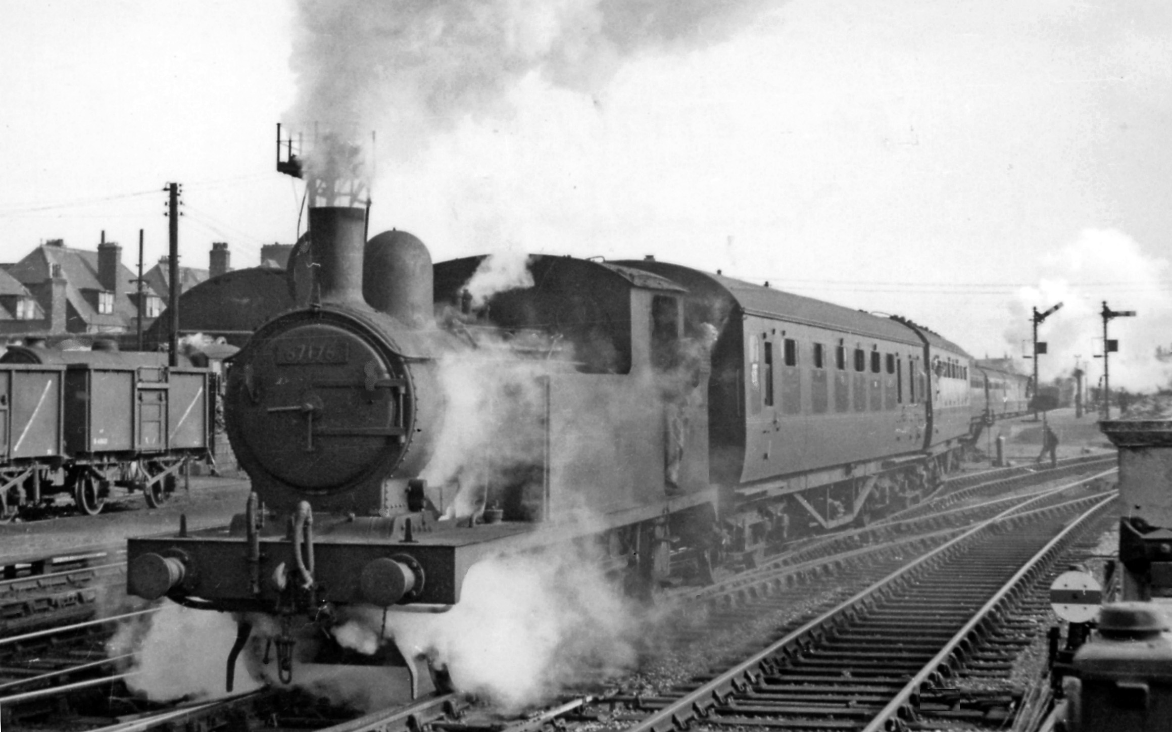 A Holiday express from Derby proceeds from Yarmouth (Beach) station on its last leg to Lowestoft. View southward towards the buffer-stops; ex-Midland & Great Northern terminus of the line from Melton Constable and points westand north. The train is the one shown arriving in TG5208 : Derby - Lowestoft express entering Yarmouth Beach Station from Derby. An ancient ex-Great Eastern F4 2-4-2T (No. 67176, displaced from its work on London Suburban services) is struggling out with this main-line stock for Lowestoft over the ex-Norfolk & Suffolk Joint line through Gorleston-on-Sea.